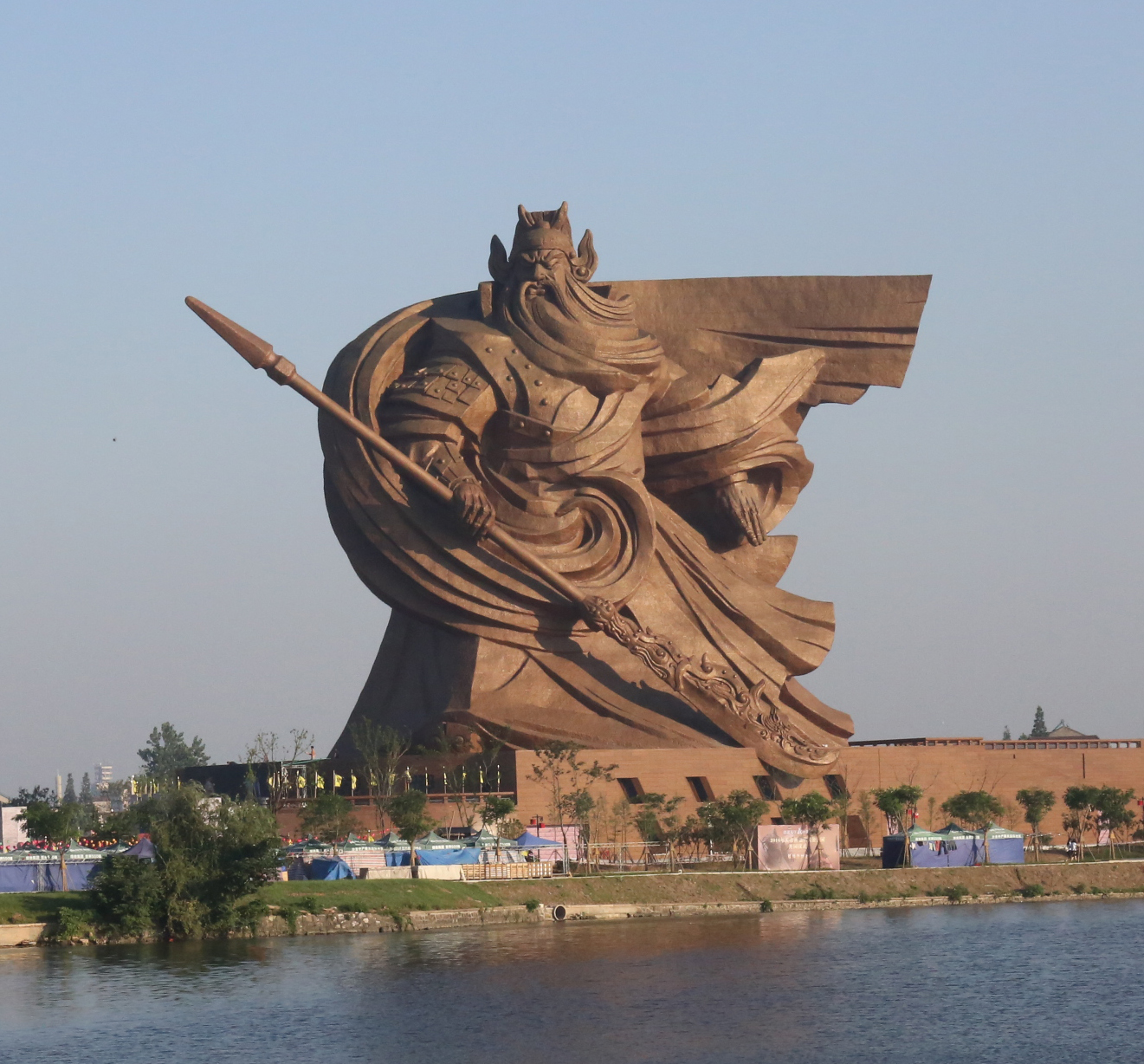 Statue of Guan Yu in Jingzhou Park.